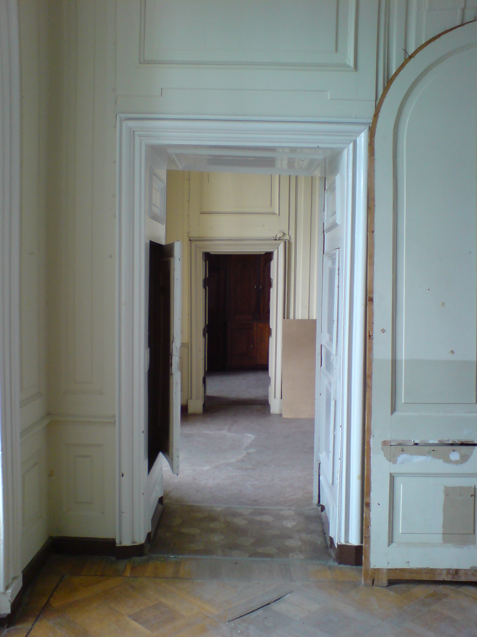 Bothmer Palace, "enfilade"